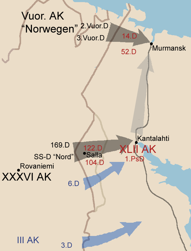 Plan for operation "Silberfuchs" or "Silver Fox"